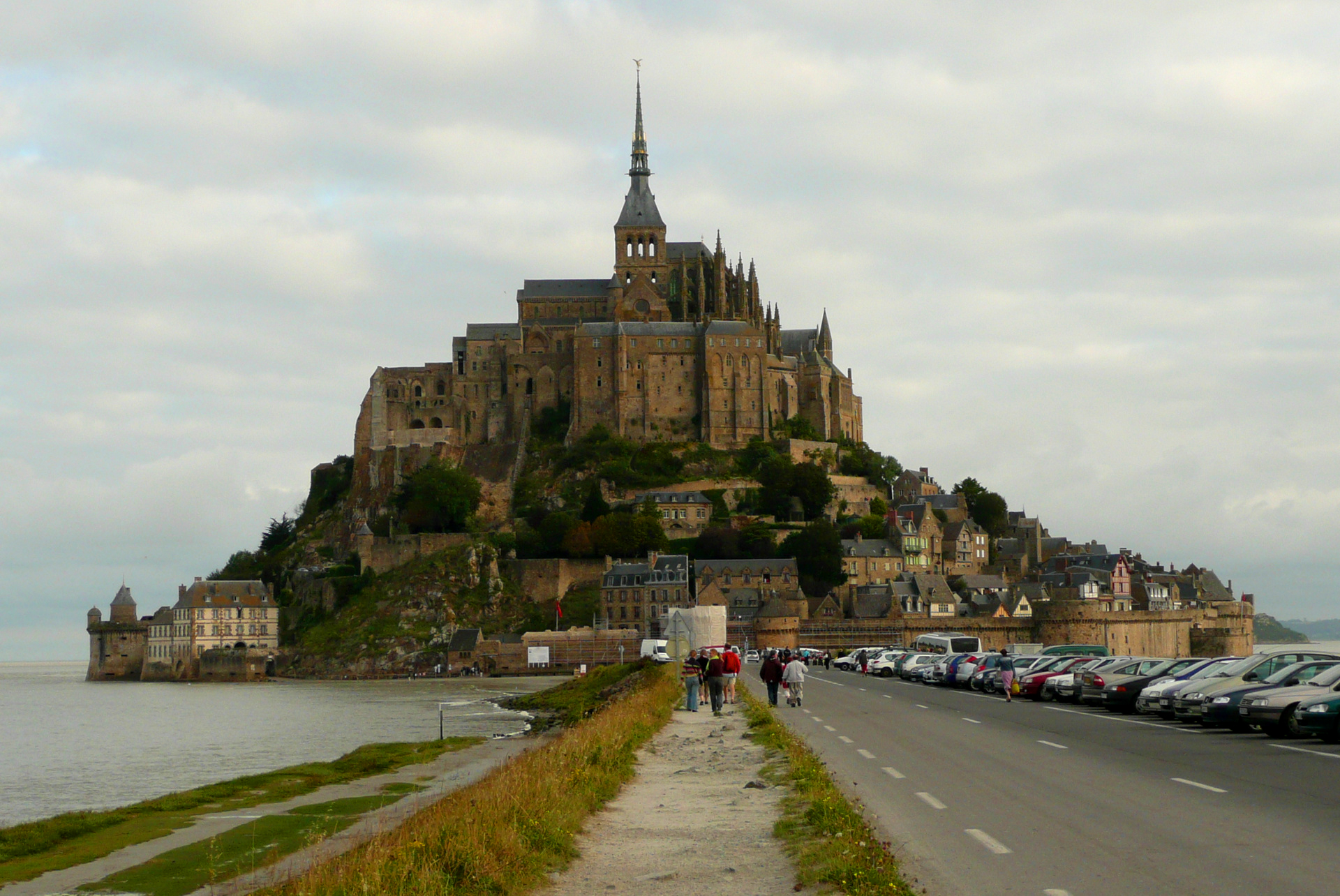 St Michael's Mount